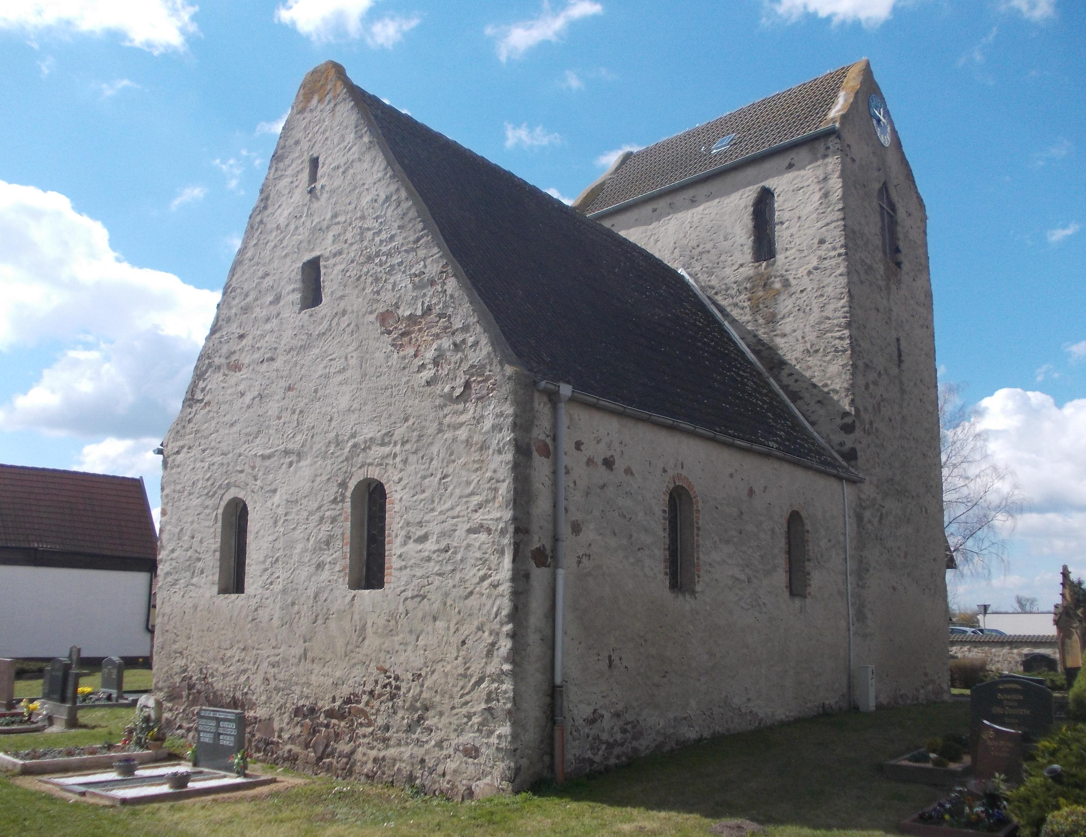 St. Catherine's Church in Plössnitz (Landsberg, district: Saalekreis, Saxony-Anhalt)